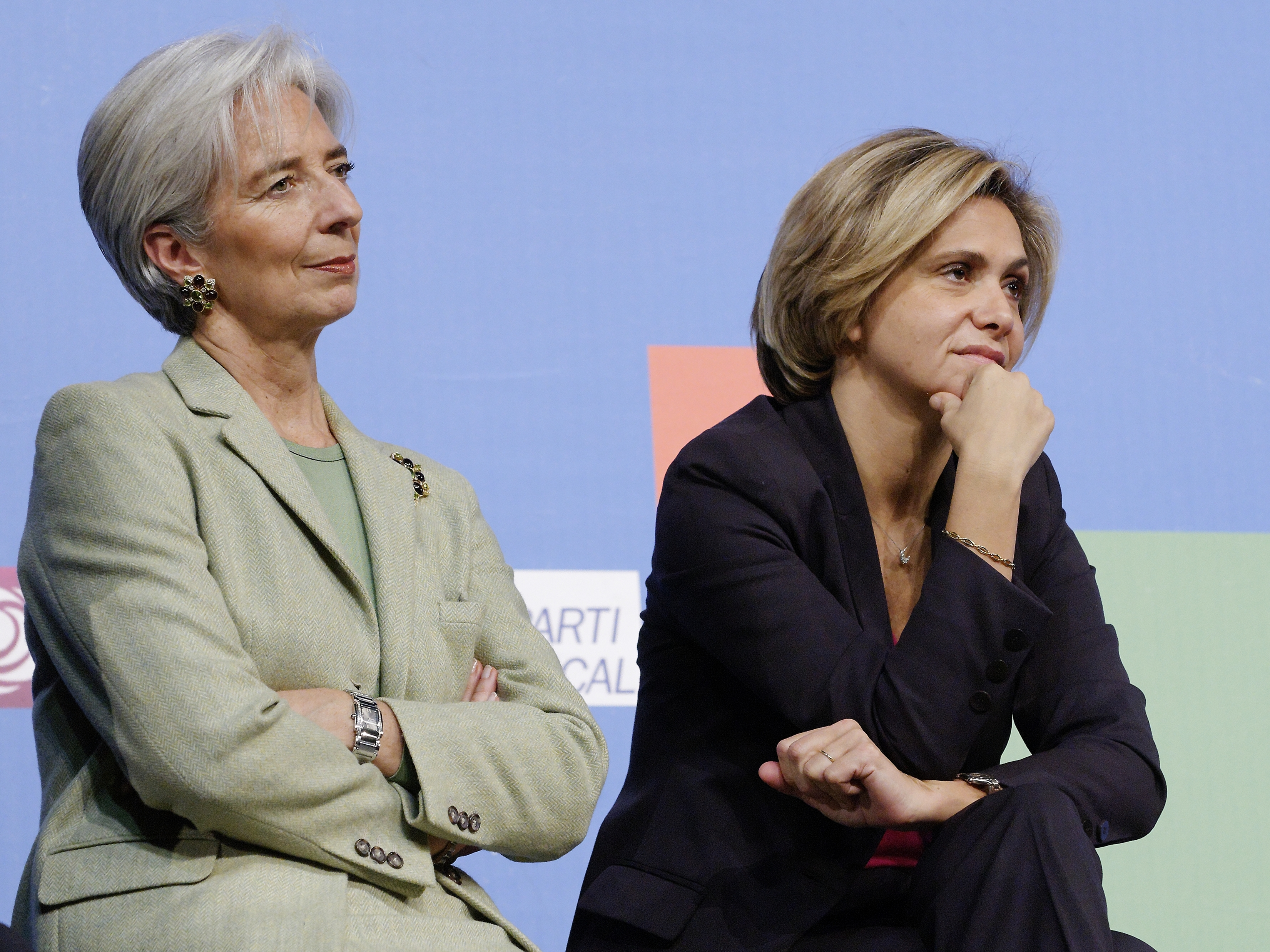 Christine Lagarde and Valérie Pécresse at a UMP rally for the 2010 French regional elections campaign in Issy-les-Moulineaux.